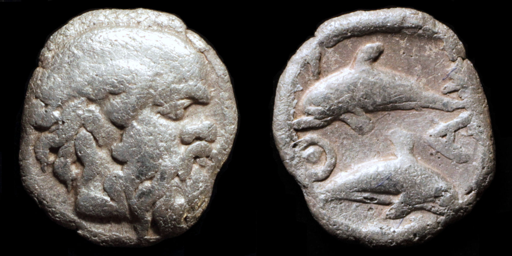 tritartemorion = 3/4 obol struck in 411-404 BC (after Thasian revolt against Athens) obverse: head of Satyr left reverse: dolphins - upper left, lower right ΘAΣI reference: SNG Cop 1033-1034; Le Rider 12; HGC 340; Beoetia p. 52. Traité III, 347. BCD Boiotia 280